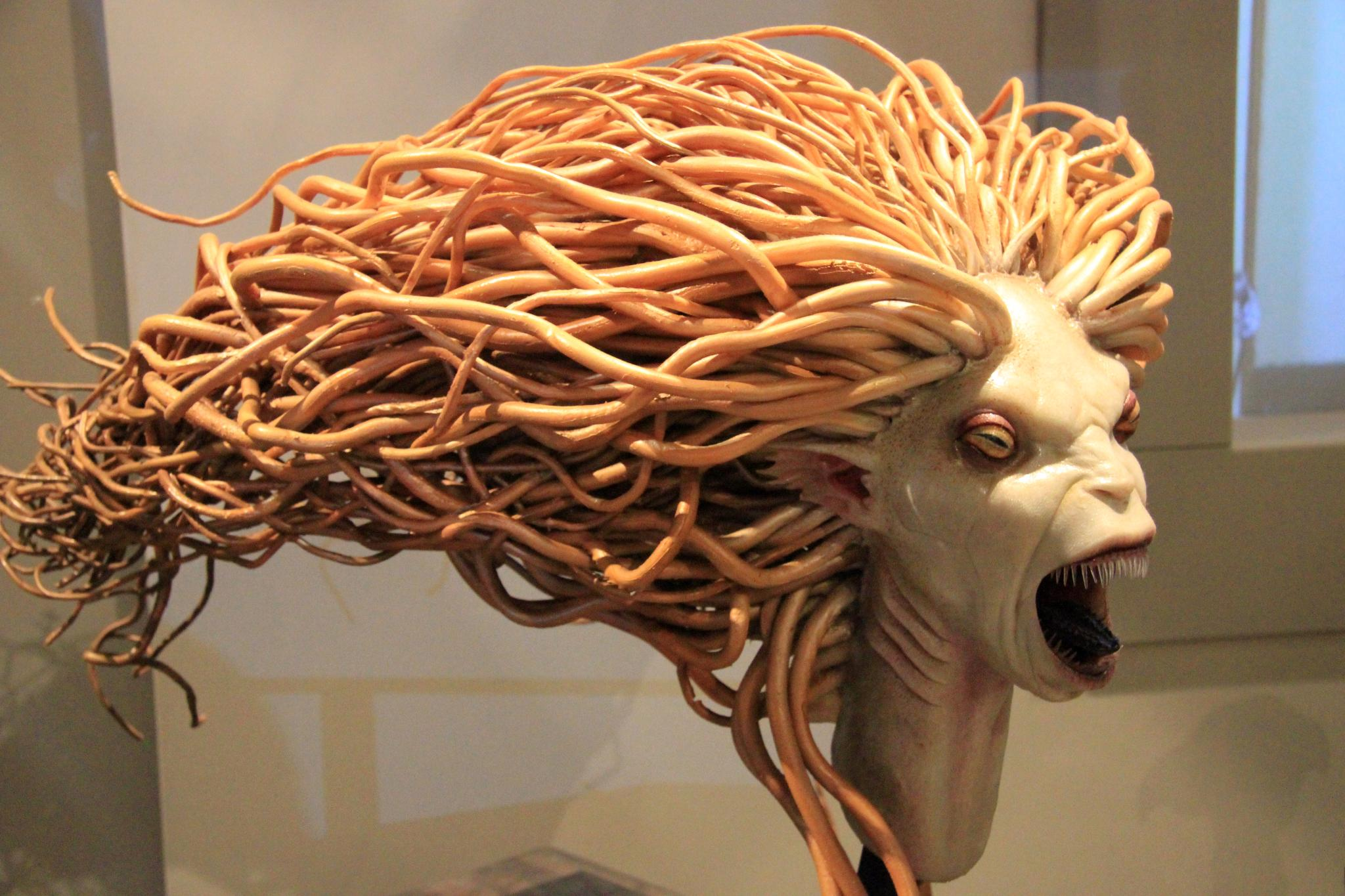 Warner Bros. Studio Tour London: The Making of Harry Potter.